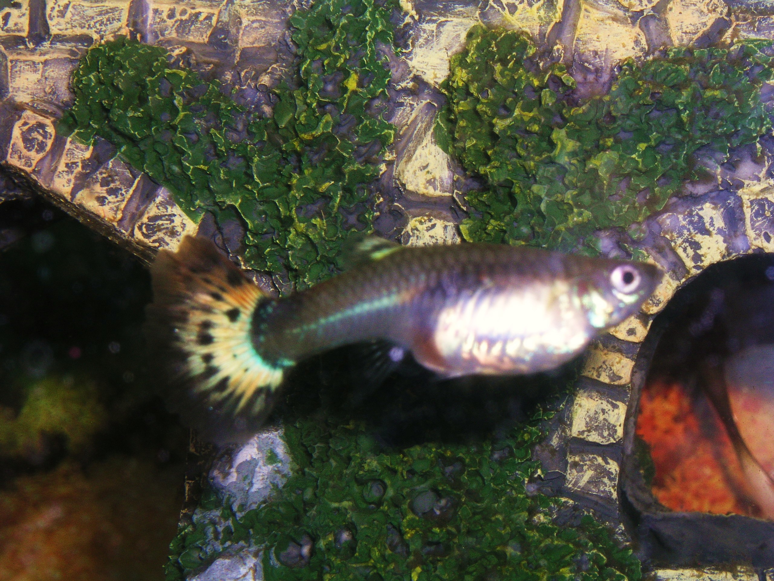 Pregnant guppy at about 26 days, named Betta, in author's aquarium